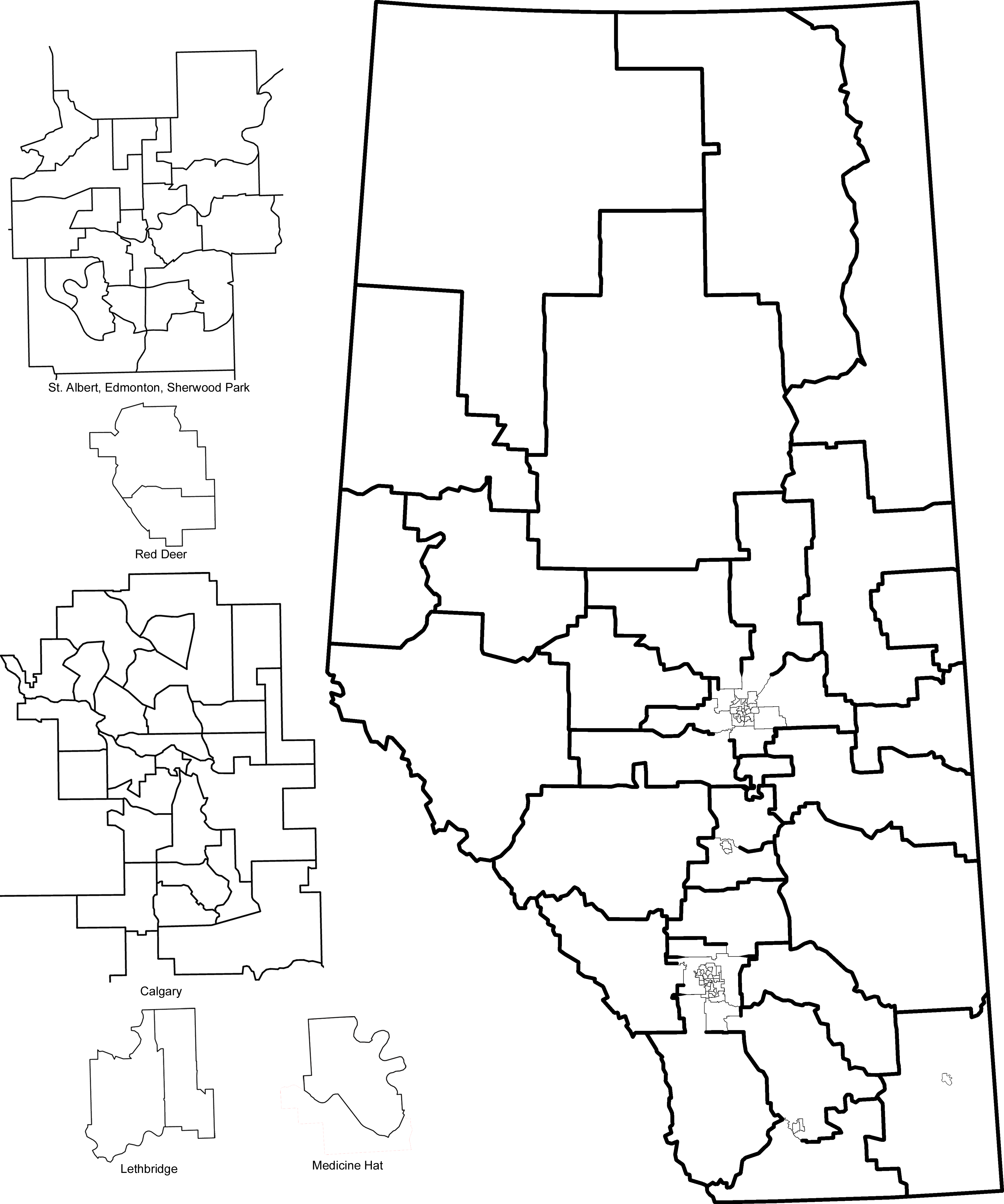 A map of all 87 Alberta provincial electoral districts, effective 2010. Inserts on the left are the cities of Edmonton, Red Deer, Calgary, Lethbridge, and Medicine Hat.